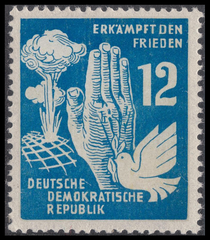 Peace stamp of DDR, 1950. 12 pf.